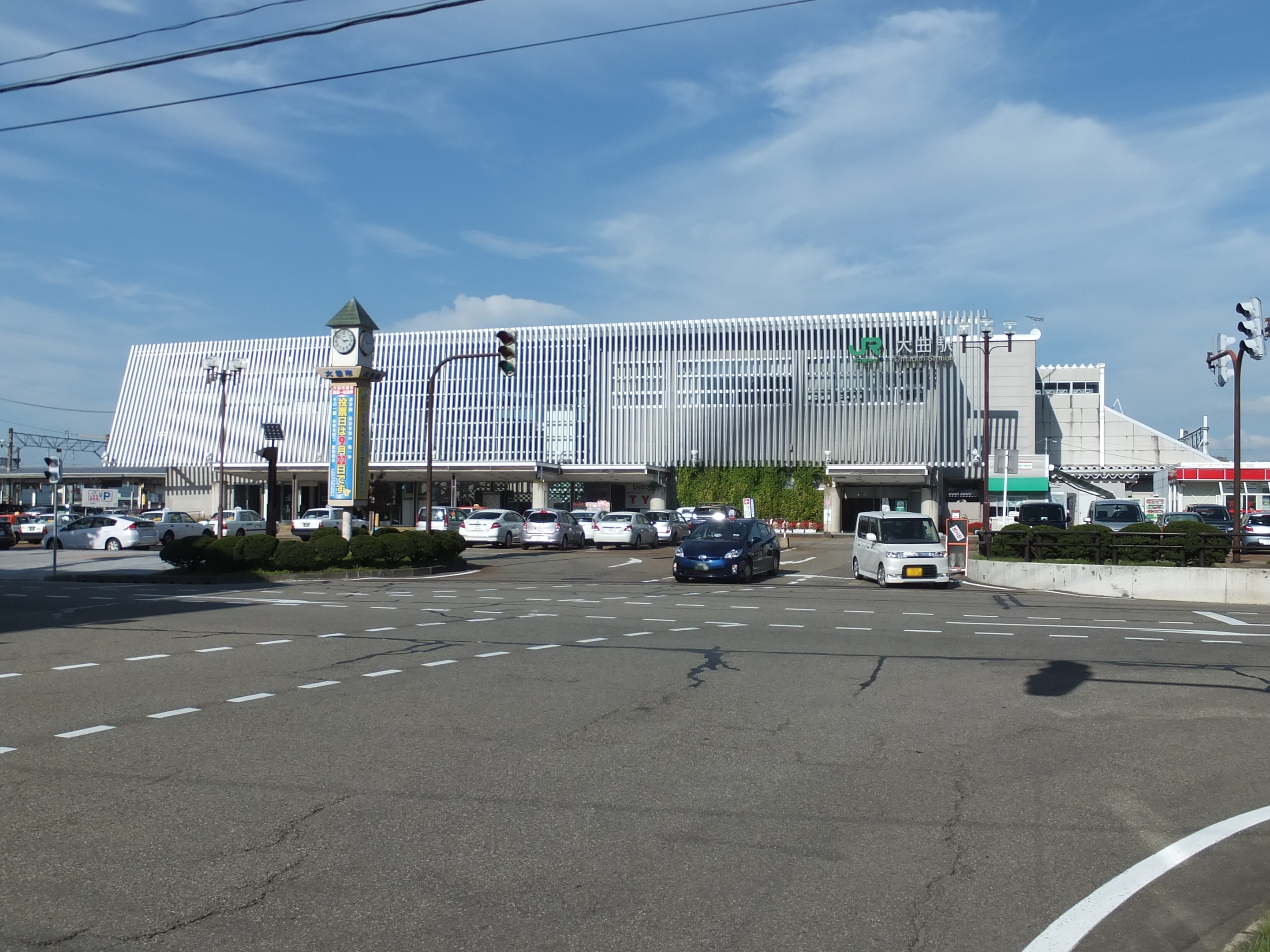 Omagari Station on the Akita Shinkansen, Ou Main Line, and Tazawako Line, in Daisen, Akita, Japan